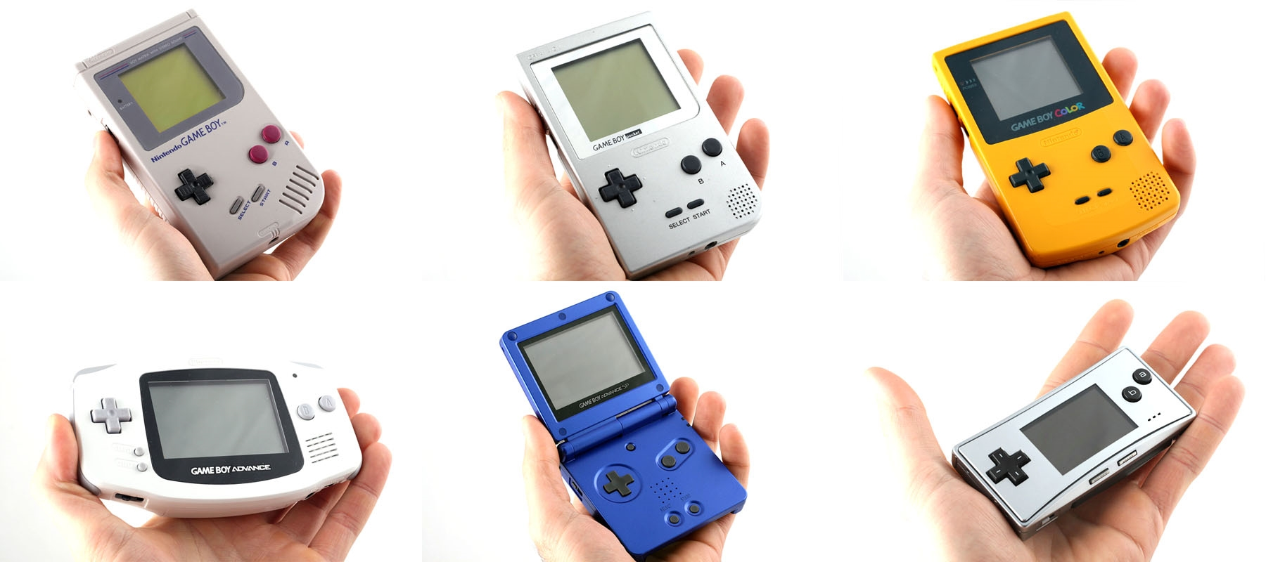 Nintendo Game Boy variants